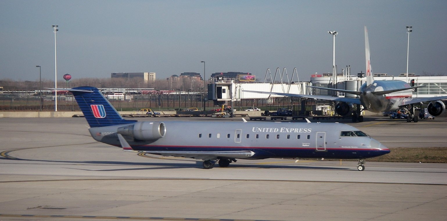 A regional jet Bombardier CRJ 200 at Midway Airport (Chicago, IL). Belongs to «United Express» airlines